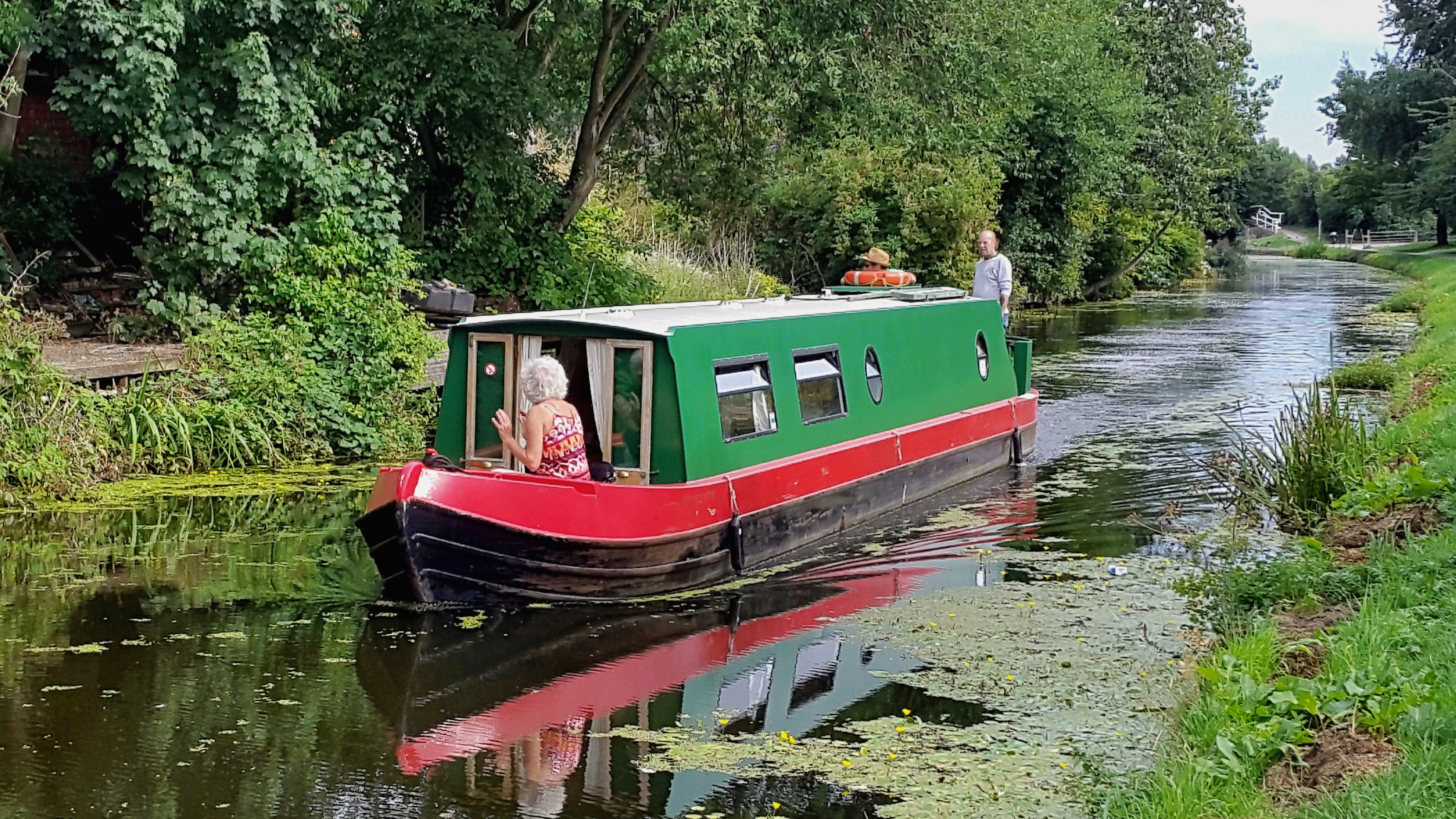 A narrowboat on the Lancaster Canal at Ashton-on-Ribble, Preston.